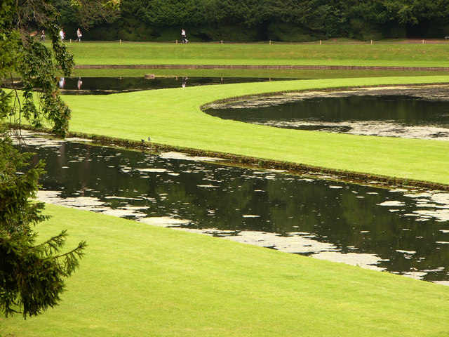 Studley Royal, water garden